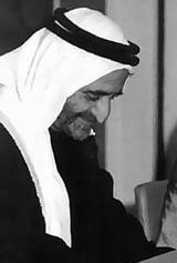 Adi Bitar in a meeting with Sheik Rashid Al Maktoum and Sheikh Mohammad Al Maktoum and Sheik Maktoum Al Maktoum in Dubai in 1968